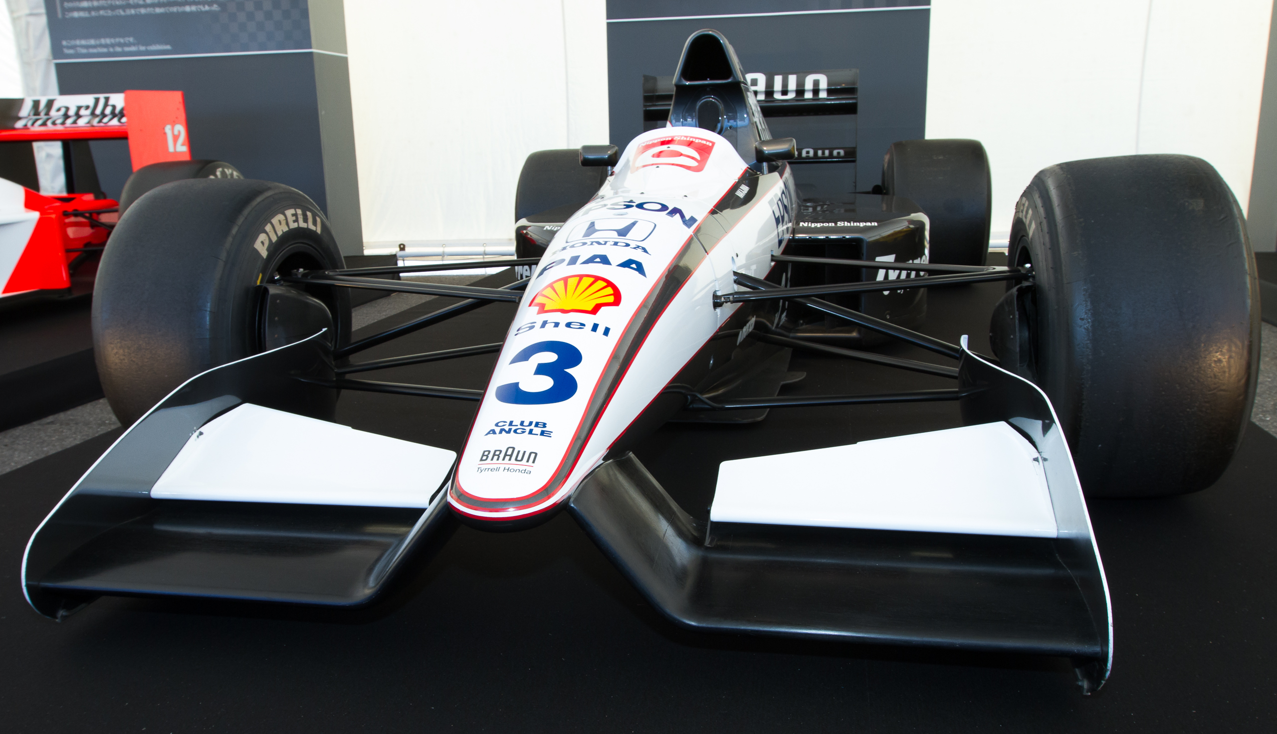 Formula One 2012 Rd.15 Japanese GP: Tyrrell 020 (1991, Satoru Nakajima's car)